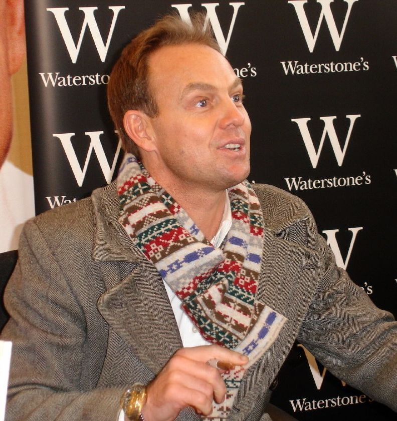 Jason Donovan signing copies of his autobiography at Waterstones Bournemouth on 14th December 2007